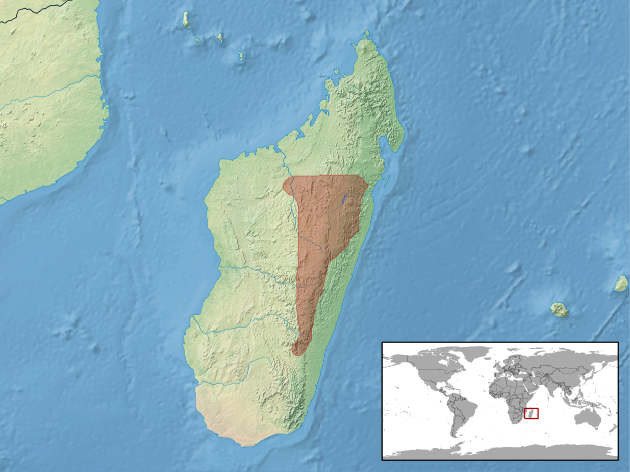 geographic distribution of Calumma gastrotaenia (Native: Madagascar)